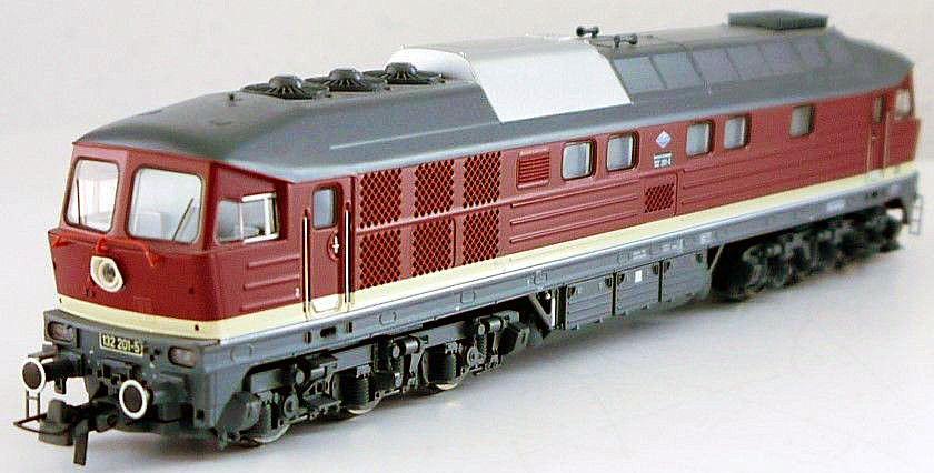 Roco Art. No. 63431 BR 132 201-5 DR